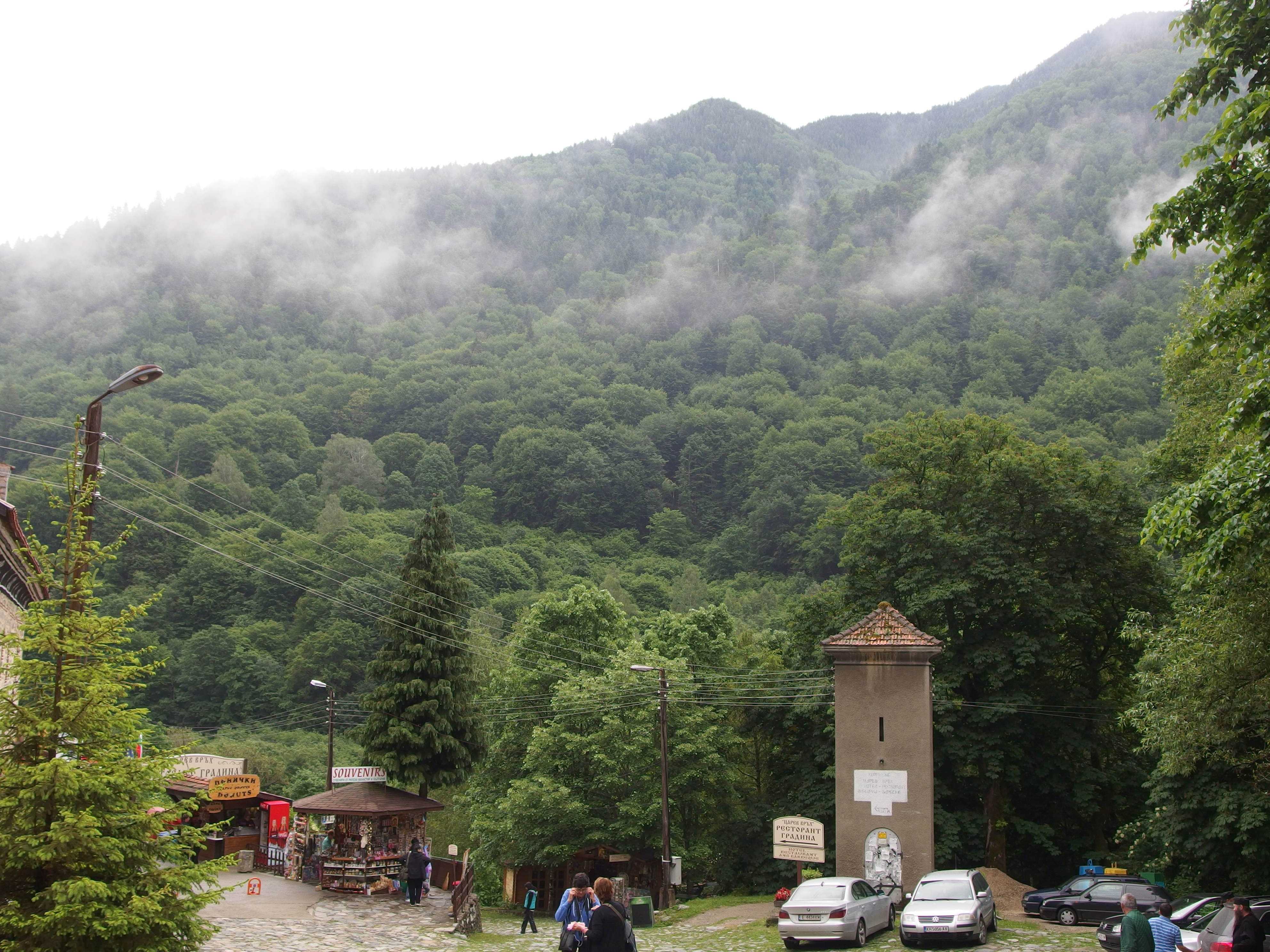 2014-06-17 at Rila Monastery.